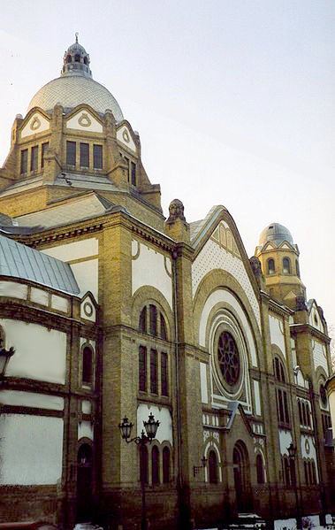 Synagogue in Novi Sad, Serbia Photo: Frans van Nes, January 2003